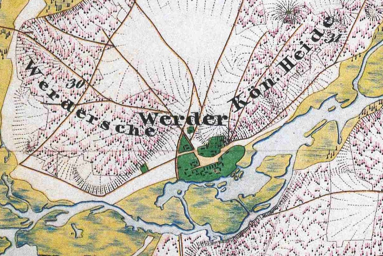 Village Werder and river Spree, detail from the Urmesstischblatt (prototype planetable sheet at 1:25,000) Sheet 3850 Kossenblatt, drawn in 1846. Today, Werder is a part of the municipality Tauche in the District Oder-Spree, Brandenburg, Germany.